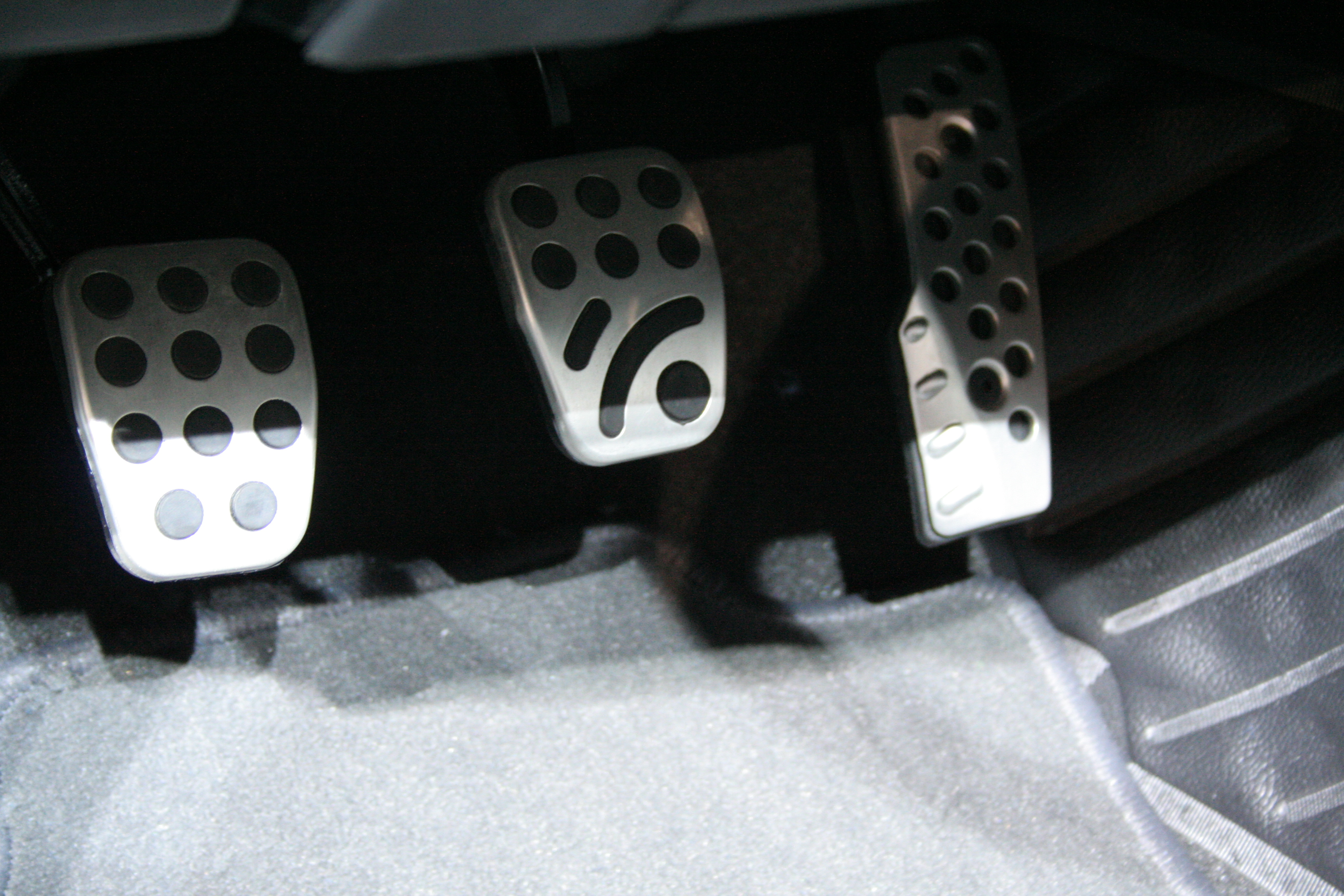 Image from IAA 2007 in Frankfurt am Main